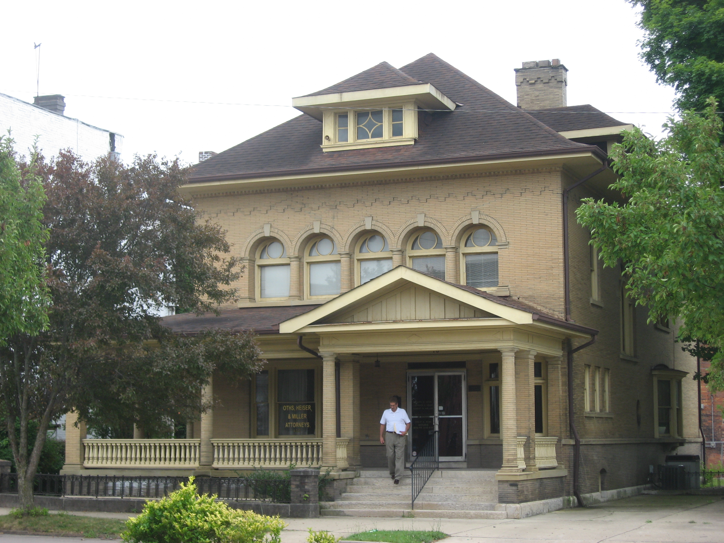 Front of the Clutts House, located at 16 E. Broadway (State Routes 327/788) in downtown Wellston, Ohio, United States. Built in 1902, it is listed on the National Register of Historic Places.